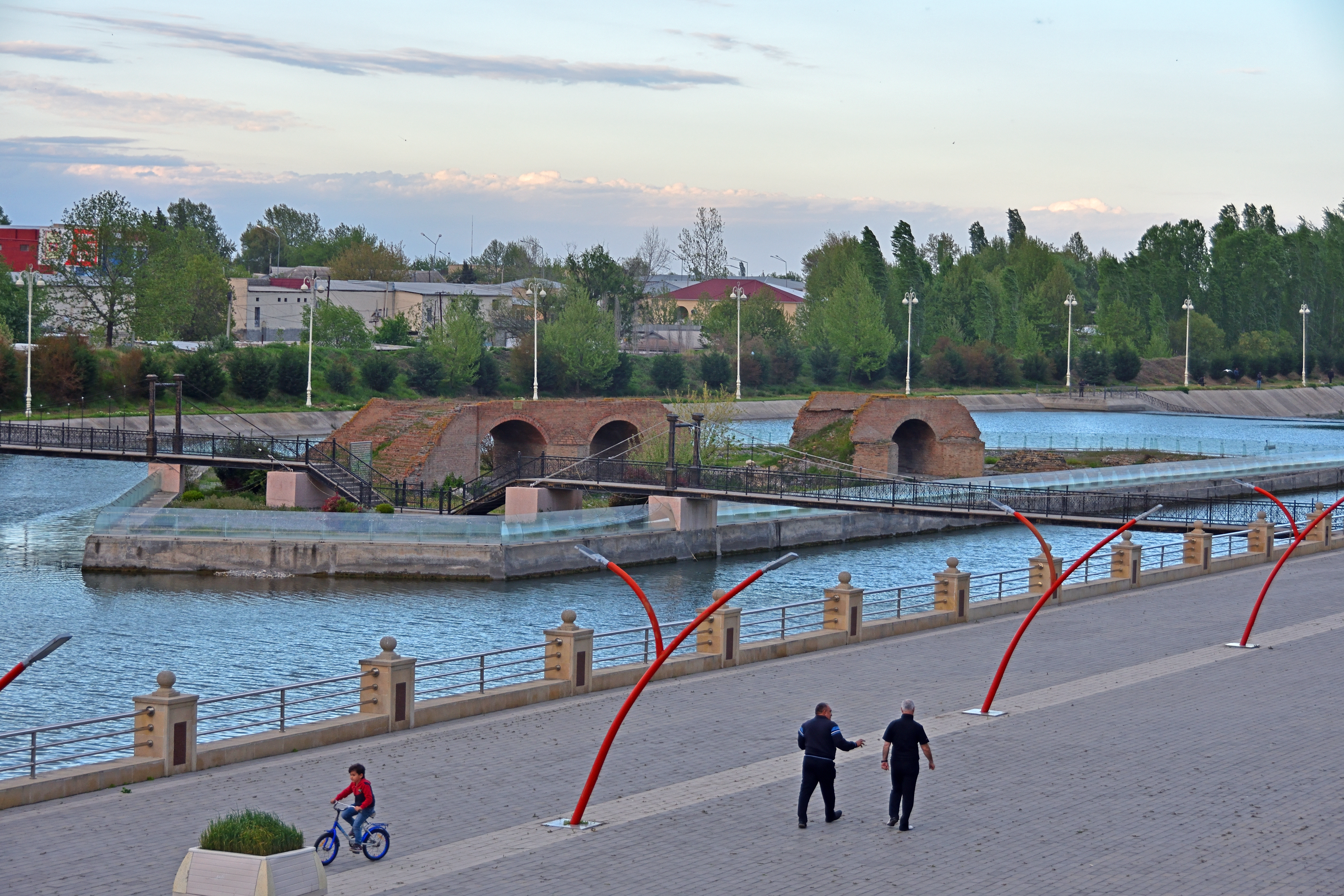 Old bridge in Barda, Azerbaijan